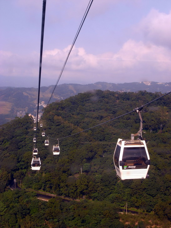 It passes through the zoo which is one of the station of the cable car... 台北貓空纜車